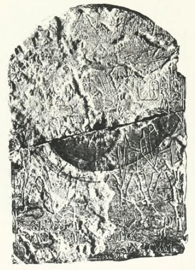 Stele CG 20533 of Djedneferre Dedumose II from Gebelein. See wikipedia article Dedumose II for additional informations and further references.